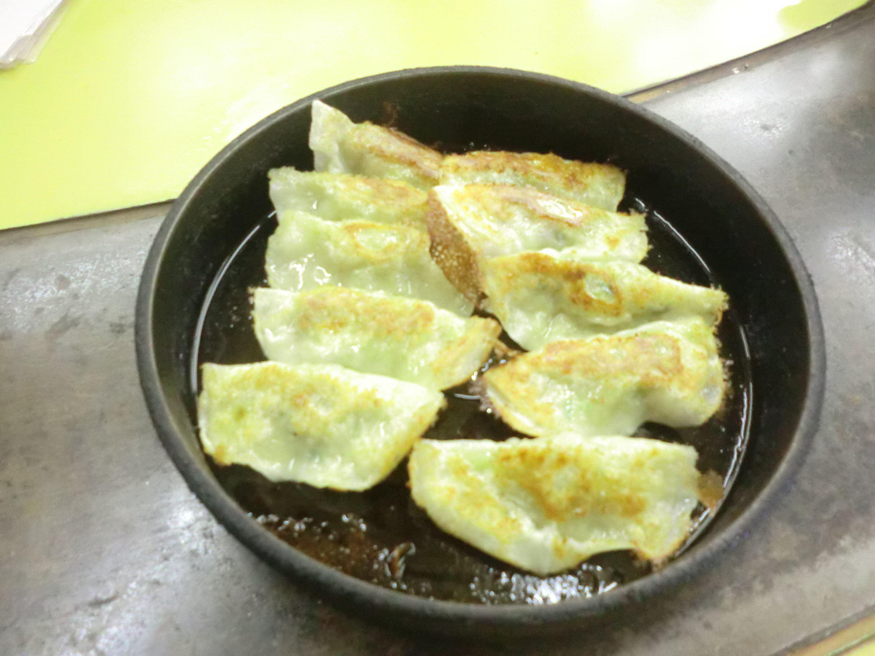 Yahata Gyoza(Yahata style Jiaozi) famous in Kitakyushu,Fukuoka,Japan.